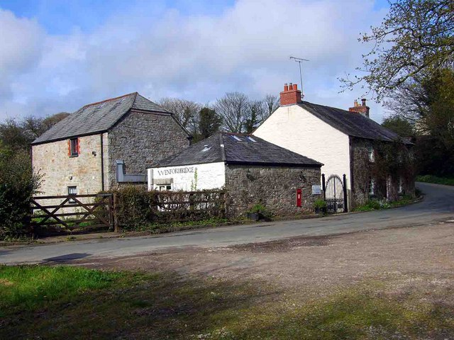 The hamlet of Wenfordbridge, near Bodmin, Cornwall, United Kingdom. For more information, see the Wikipedia article Wenfordbridge.